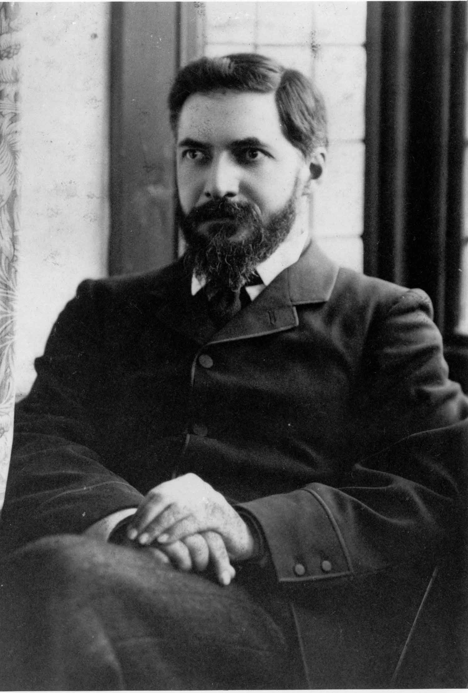 Petrie's Portrait, c. 1886.